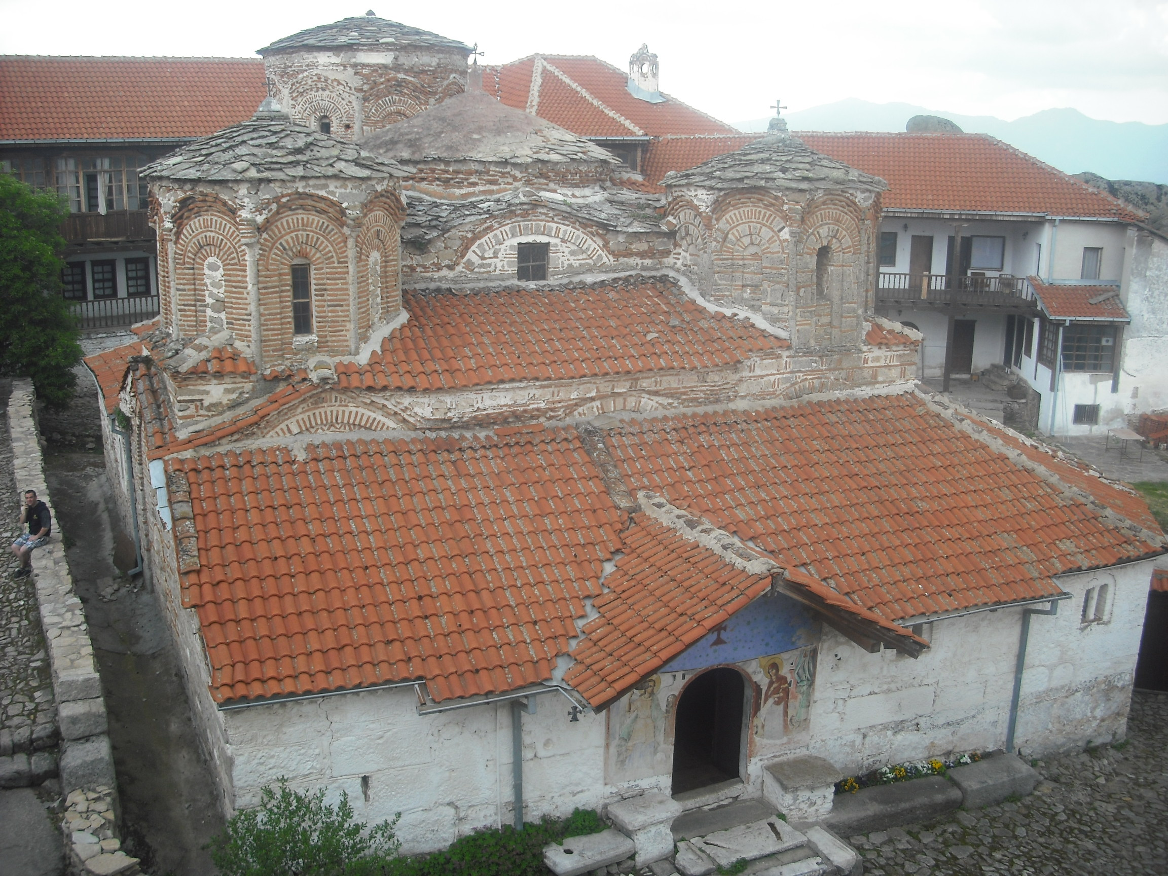 The church of St. Mary's Assumption at the Treskavec Monastery near Prilep, Republic of Macedonia